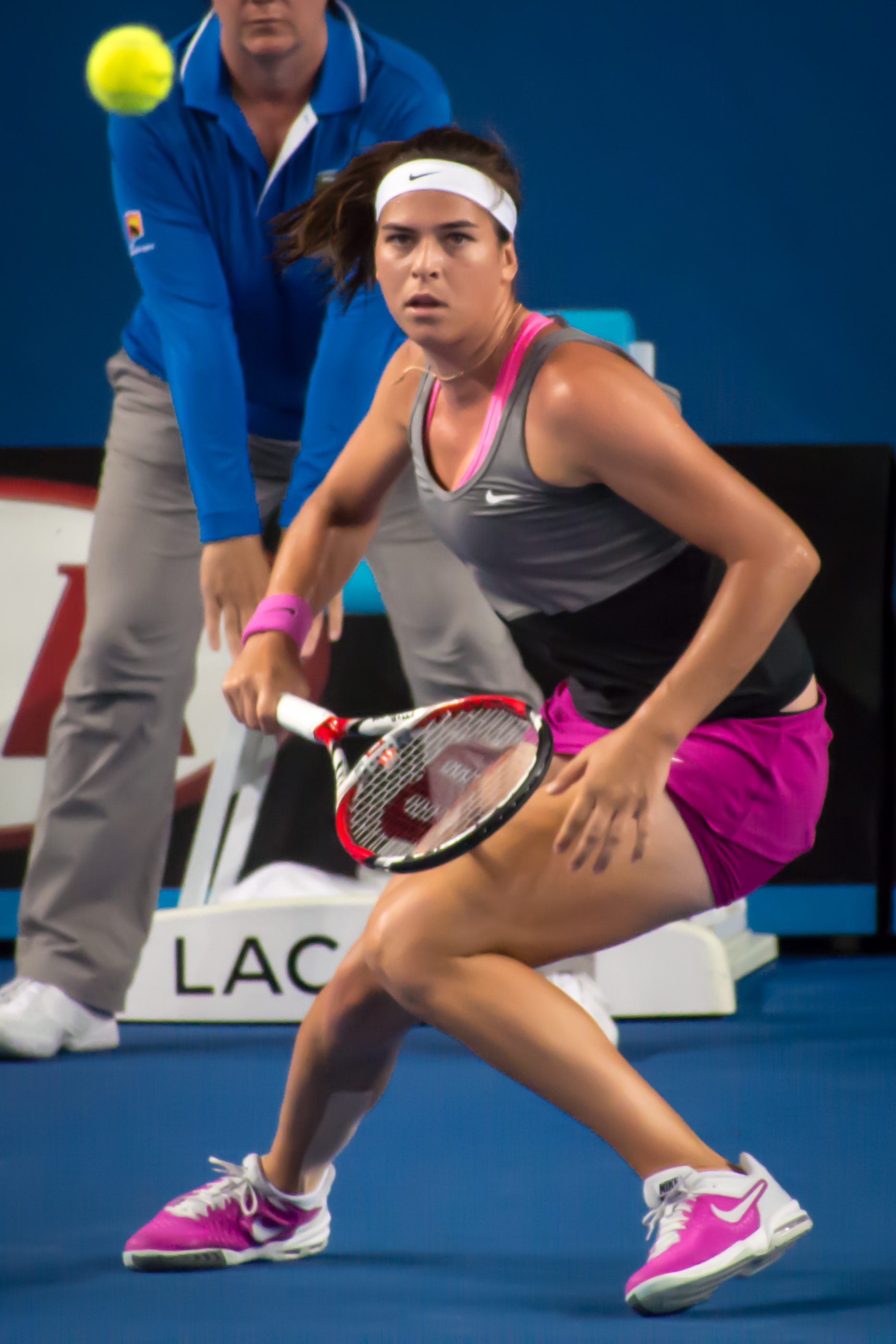 Ajla Tomljanovic (CRO) during her 2nd round 3-set loss to Sloane Stephens (USA) [13] at the 2014 Australian Open on Margaret Court Arena.